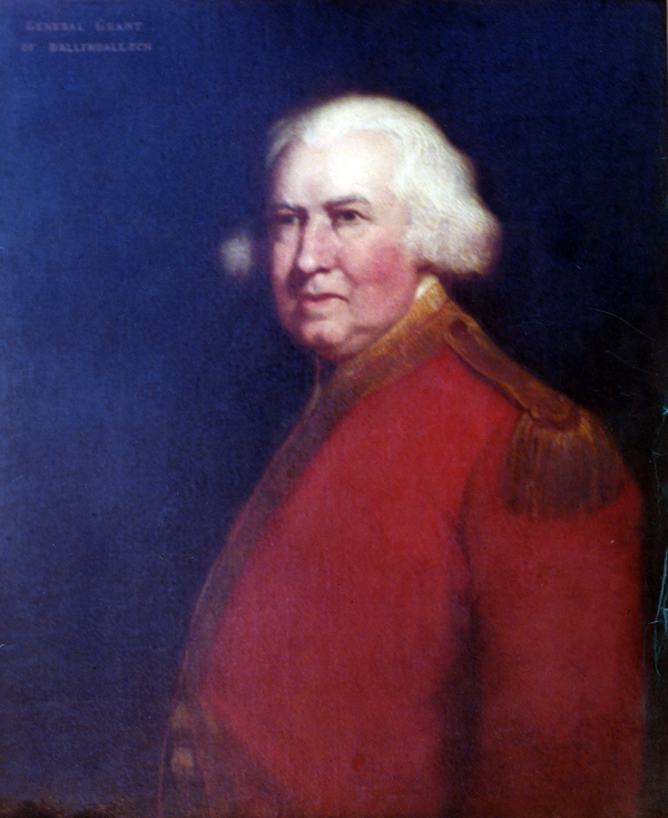 Portrait painting of Major General James Grant, circa 1770, the first British governor of East Florida (1764 - 71). Other information As per the immediate source, credit this photo: State Archives of Florida, Florida Memory